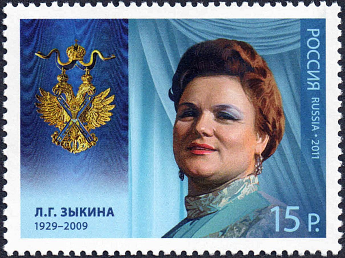 Recipients of the Order of St. Andrew the Apostle the First-Called (the ongoing series, issue I). Lyudmila Zykina[1] (1929–2009), a Soviet and Russian singer, a performer of Russian folk songs and romances. There depicted the badge of the Order of St. Andrew on the left. The stamp of Russia, 15.00 Rubles, 1 September 2011, PTC Marka Catalogue No 1508, Michel No 1740. Coated paper. Offset printing, varnish coating. Perforation: comb 12×11½. Size of the stamp: 50×37 mm. Print run: 440,000.